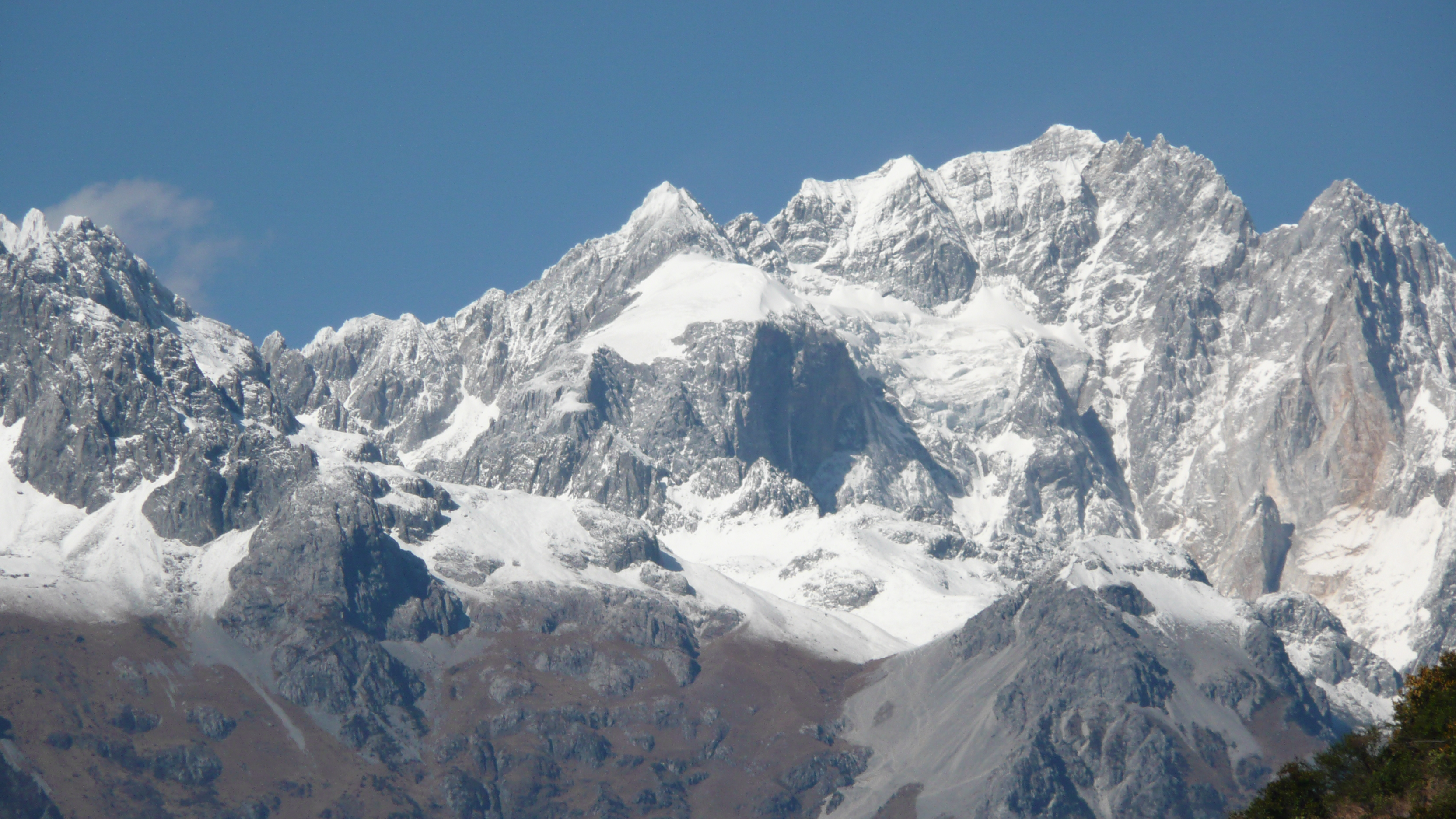 Yulong Xueshan - Jade Dragon Snow Mountain near Lijiang in Yunnan